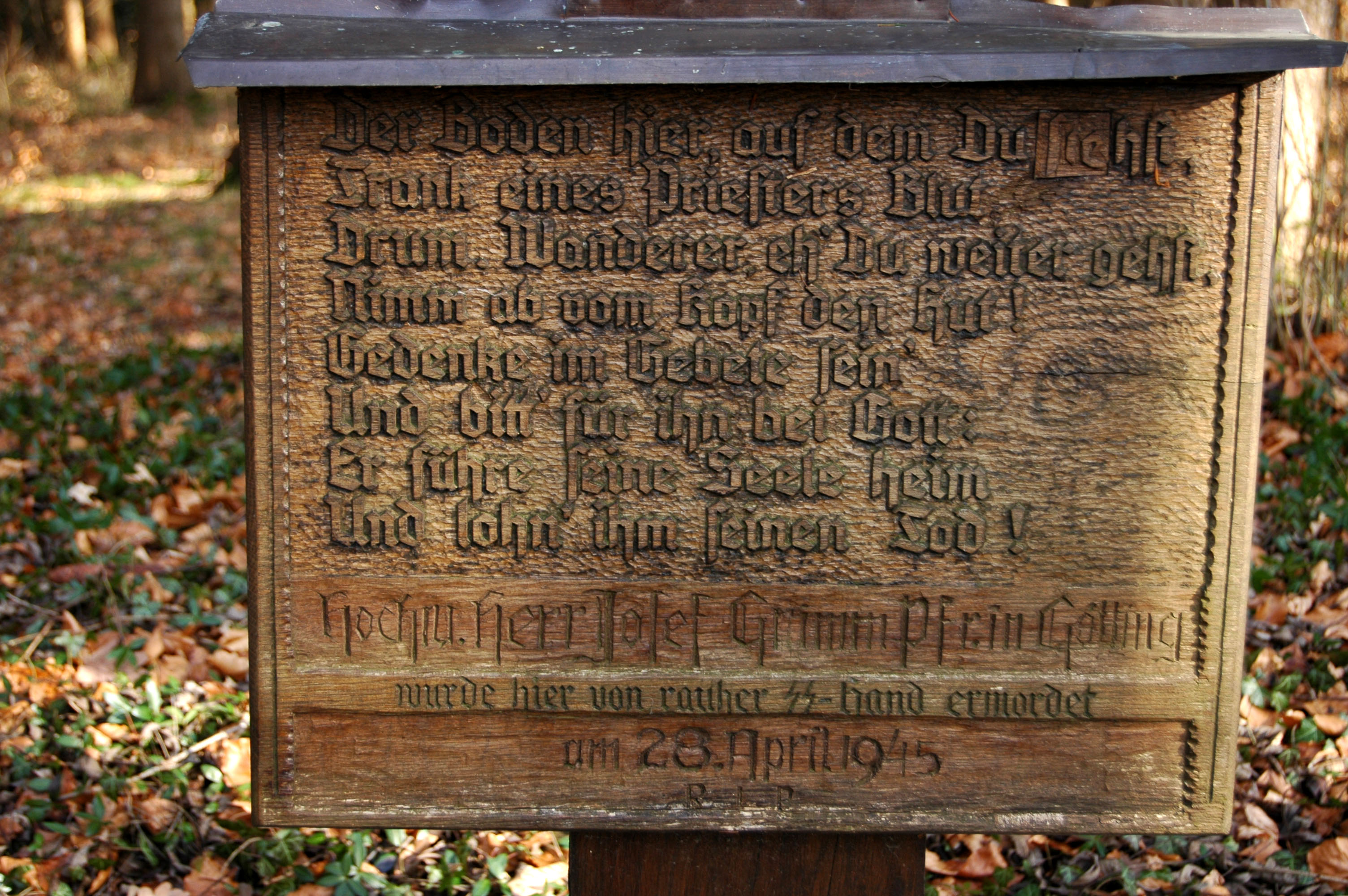 Pfarrer Grimm Memorial near Unterleiten (Bruckmuehl)